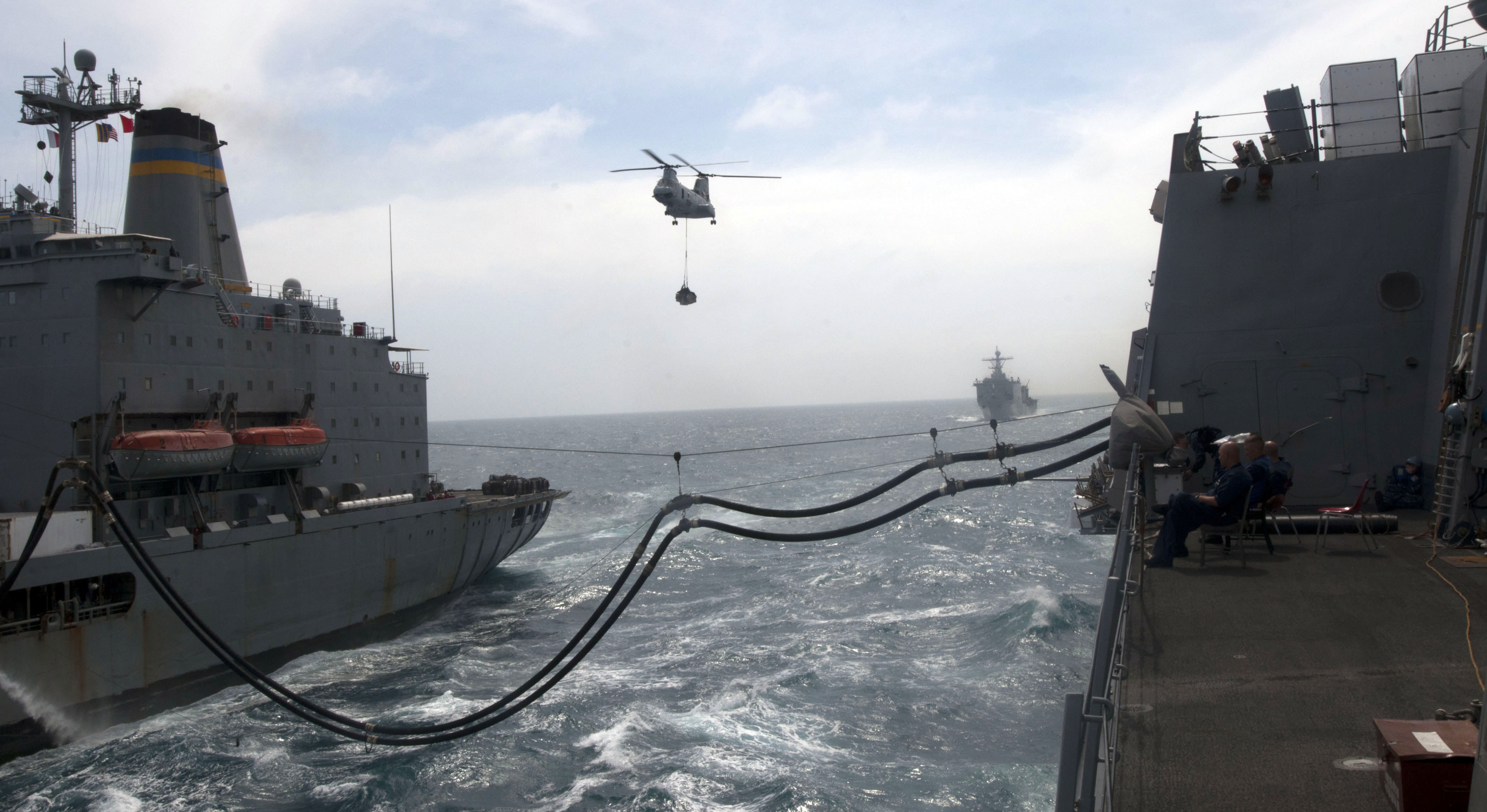 PACIFIC OCEAN (Dec. 21, 2011) A CH-53E Super Stallion helicopter, assigned to Marine Medium Helicopter Squadron (HMM) 268 Reinforced, transfers cargo from the Military Sealift Command fleet replenishment oiler USNS Tippecanoe (T-AO 199) to the amphibious transport dock ship USS New Orleans (LPD 18) during a replenishment at sea. New Orleans and embarked Marines assigned to the 11th Marine Expeditionary Unit (11th MEU) are operating in the U.S. 7th Fleet area of responsibility as part of the Makin Island Ready Group. (U.S. Navy photo by Mass Communication Specialist 2nd Class Dominique Pineiro/Released)